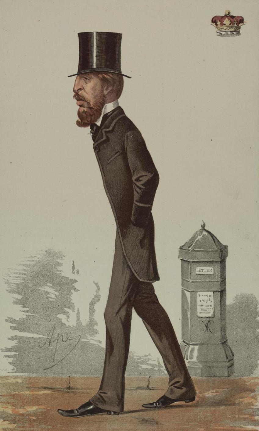 A portrait from the Welsh Portrait Collection at the National Library of Wales. Depicted person: Spencer Cavendish, 8th Duke of Devonshire – British statesman